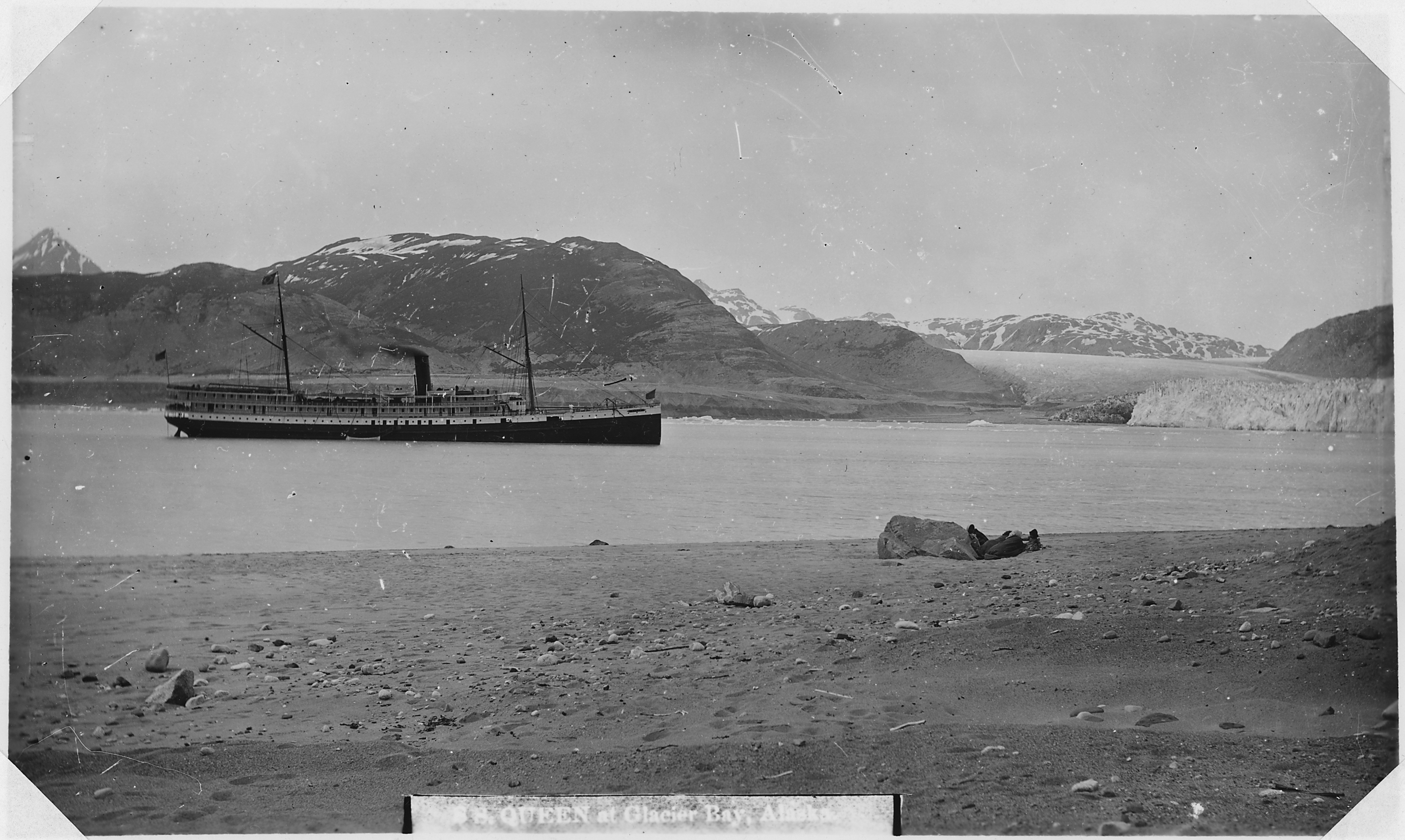 Scope and content: On back of photo: "Alaska not Metlakahtla."